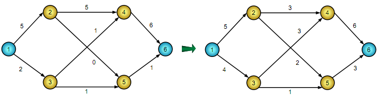 luồng sau khi tăng